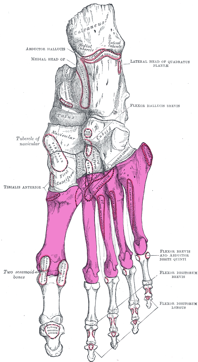 Bones of the right foot, plantar surface. Metatarsus shown in purple.